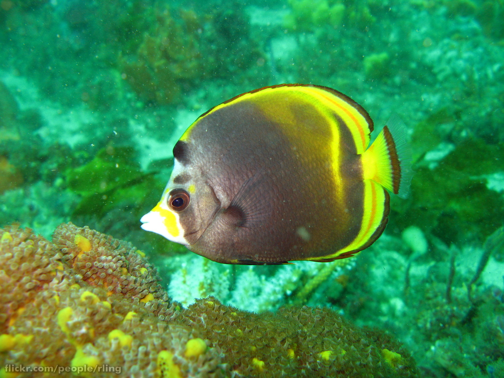 A Dusky Butterflyfish (Chaetodon flavirostris). Fly Point, Port Stephens, NSW